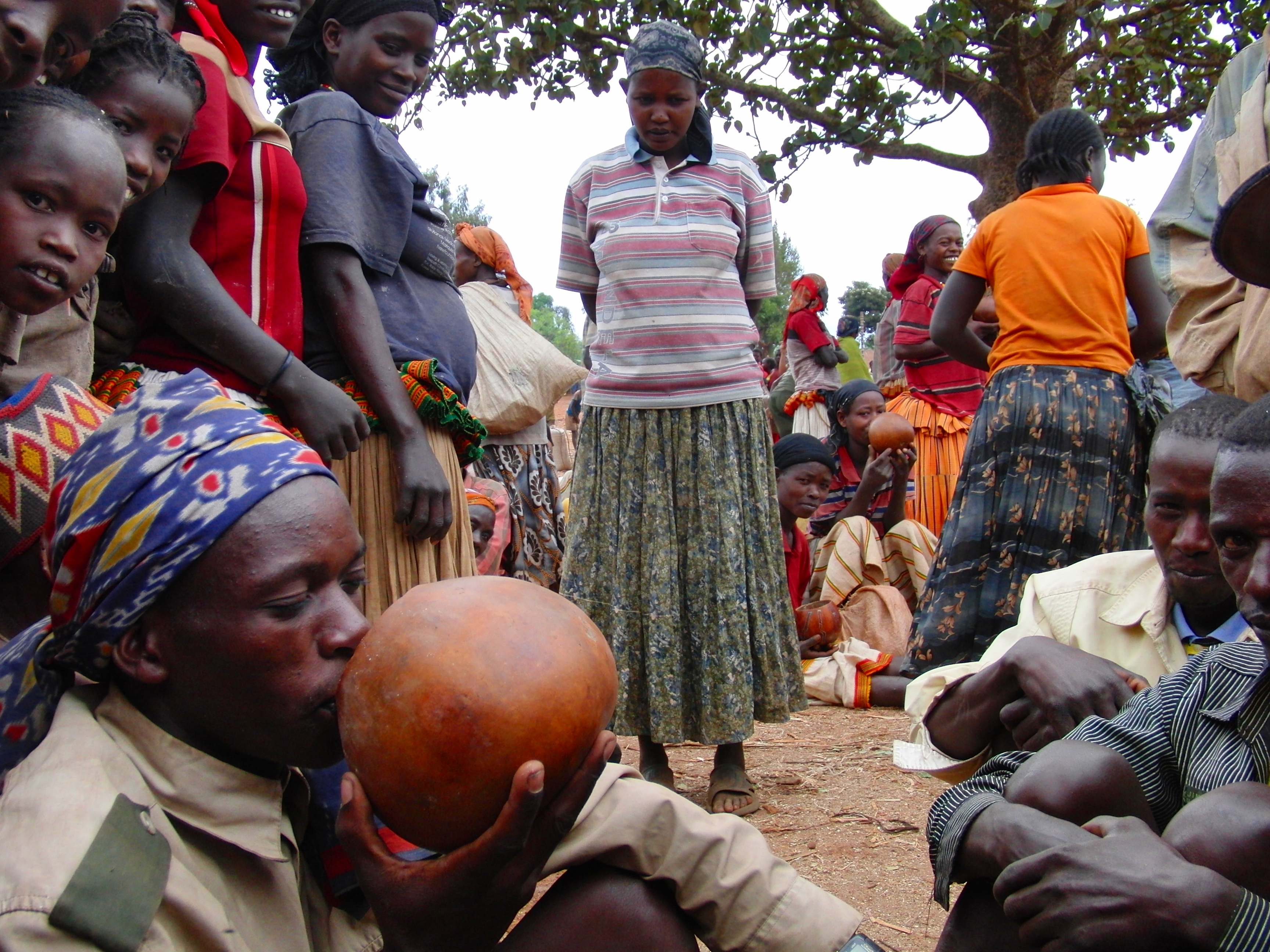 Market scene in Konso, Southwest Ethiopia. A man drinking Sorghum beer.